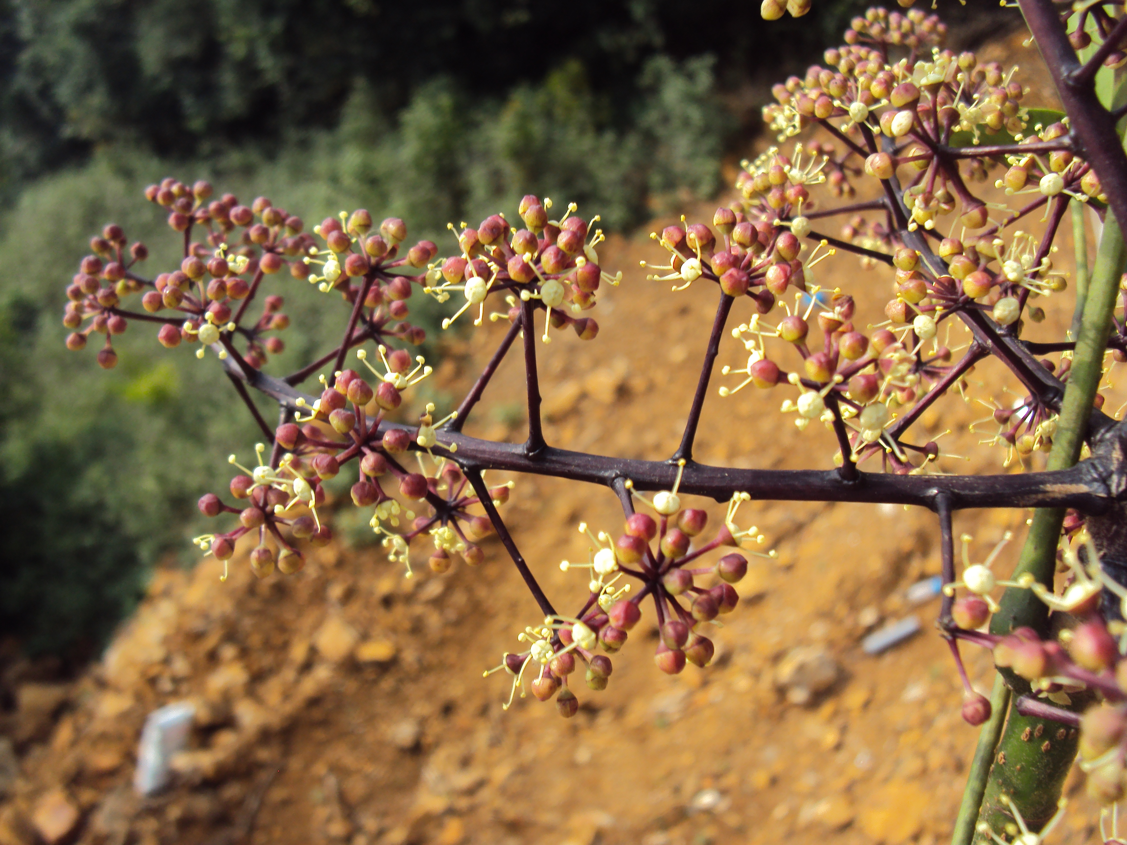 Schefflera venulosa